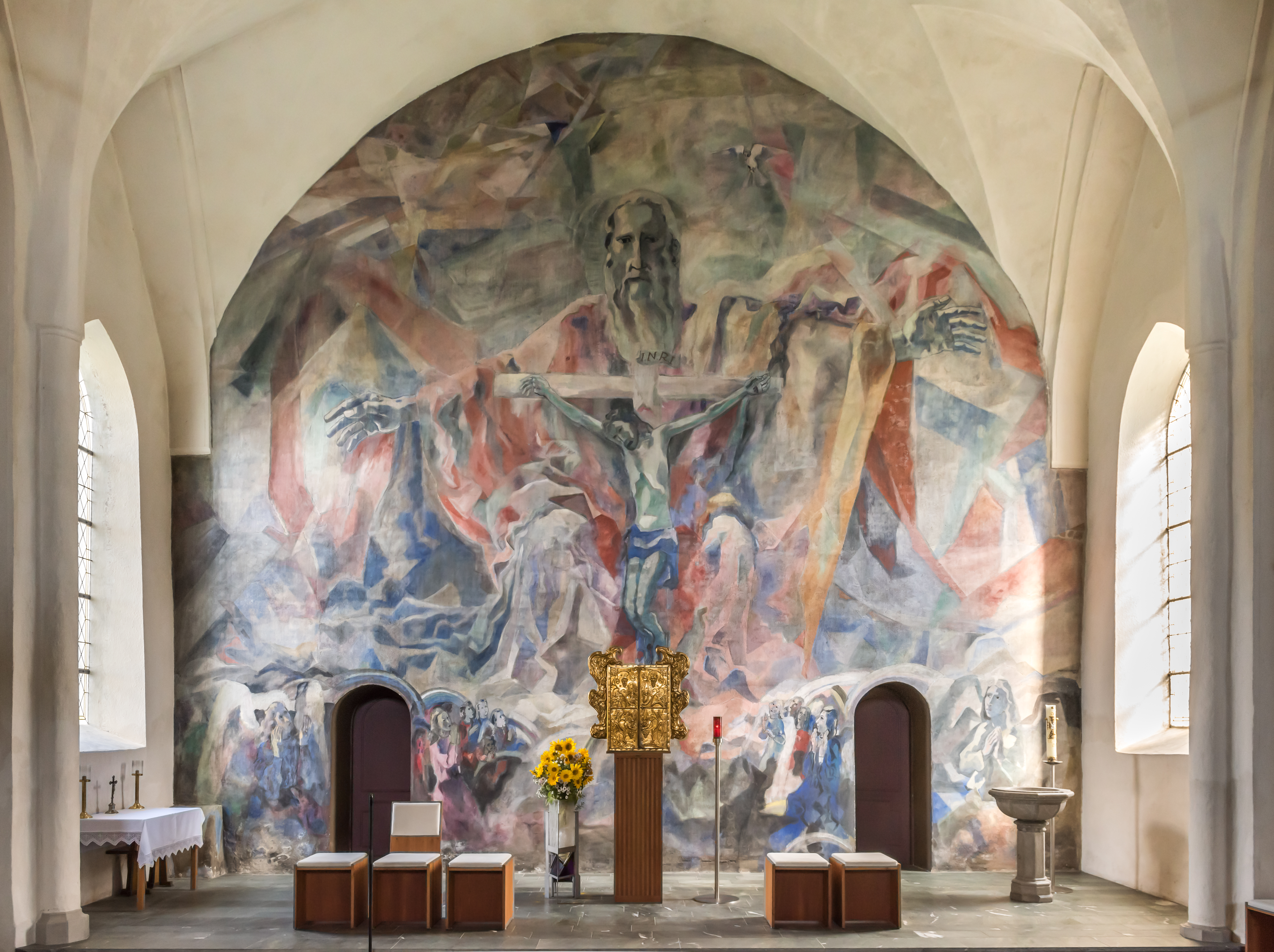 Altar with wall painting Throne of Mercy at the parish church Saint Leonard in Sankt Leonhard, quarter Seebach, statutary city Villach, Carinthia, Austria, EU